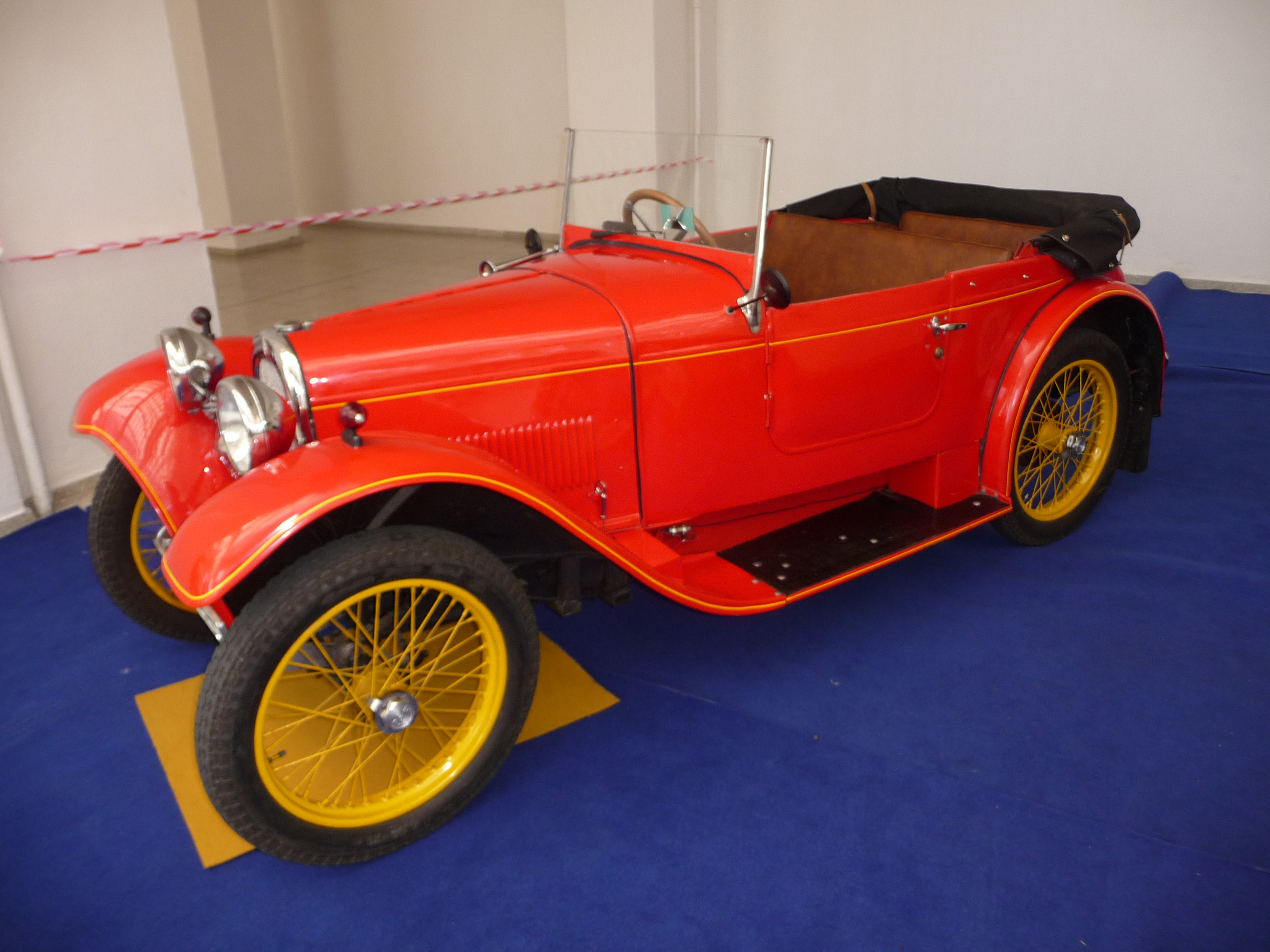 Aero 18, Classic Show Brno 2011, The Brno Exhibition Grounds -10 -5 -3 -2 ◄ ► +2 +3 +5 +10